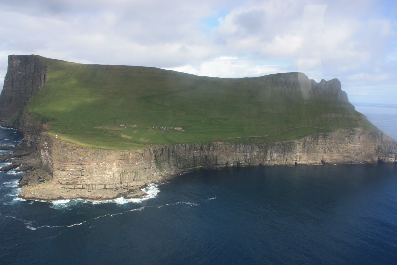 Approaching Stóra Dímun in the Faroe Islands by helicopter from southwest.